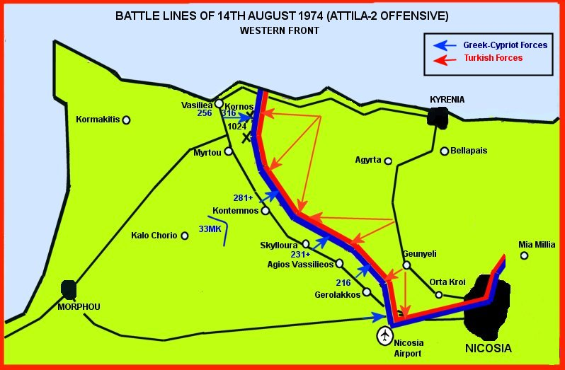 Military Geography of Cyprus Invasion Atilla-2 Offensive. Source: Vlassis 2004.